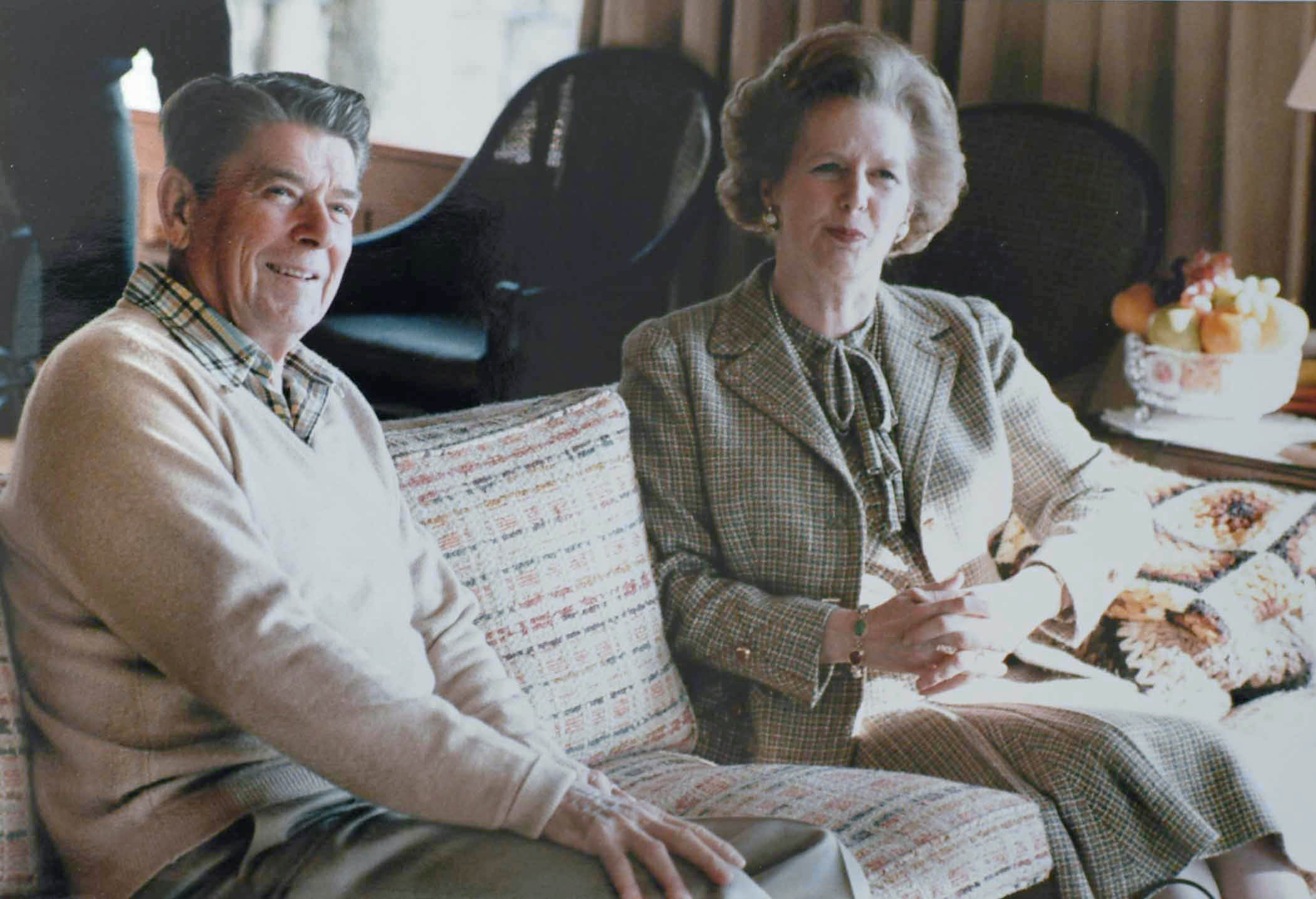 Margaret Thatcher with Ronald Reagan at Camp David